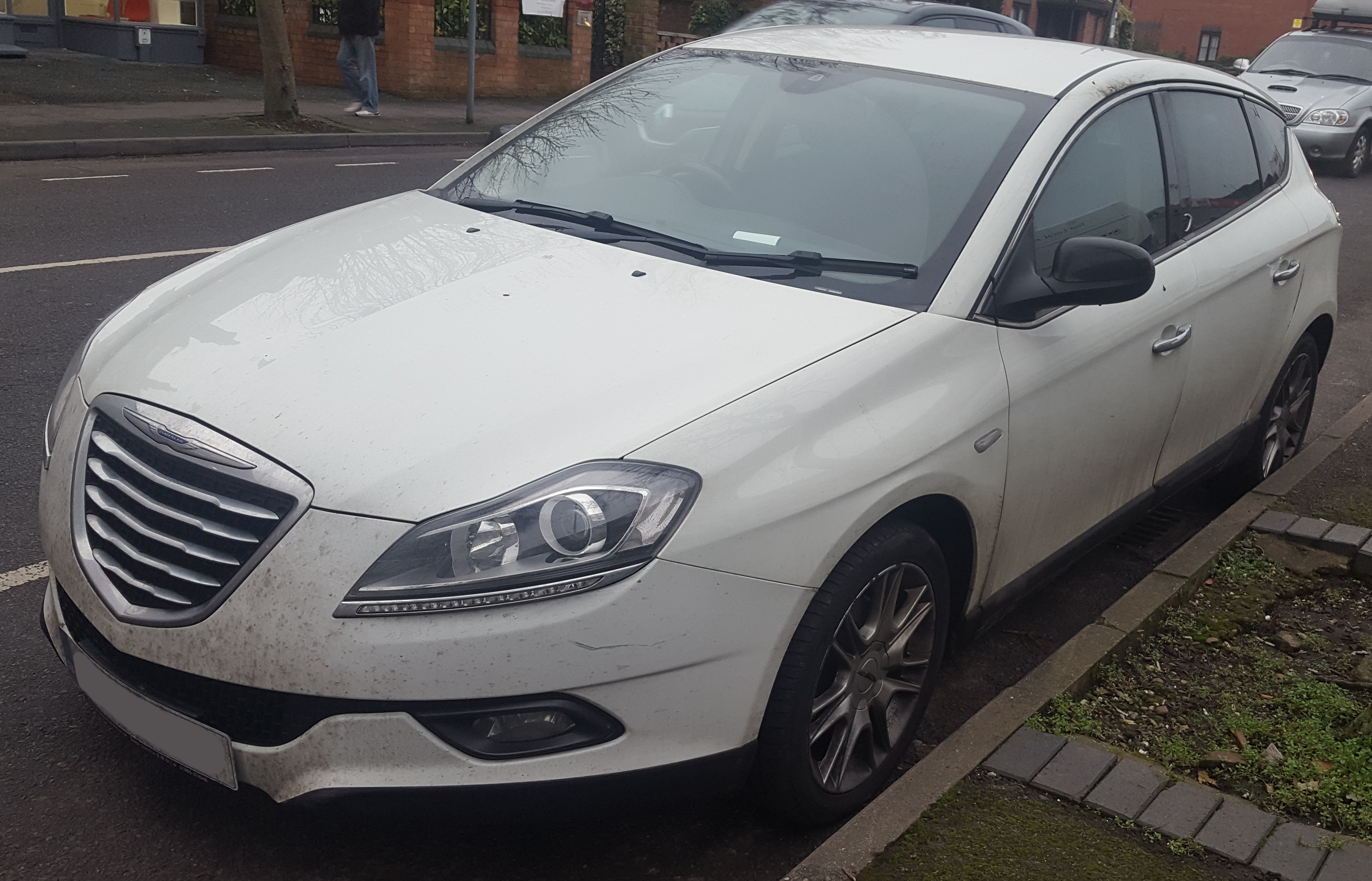 2012 Chrysler Delta SE Multijet 1.6 Front Taken in Warwick